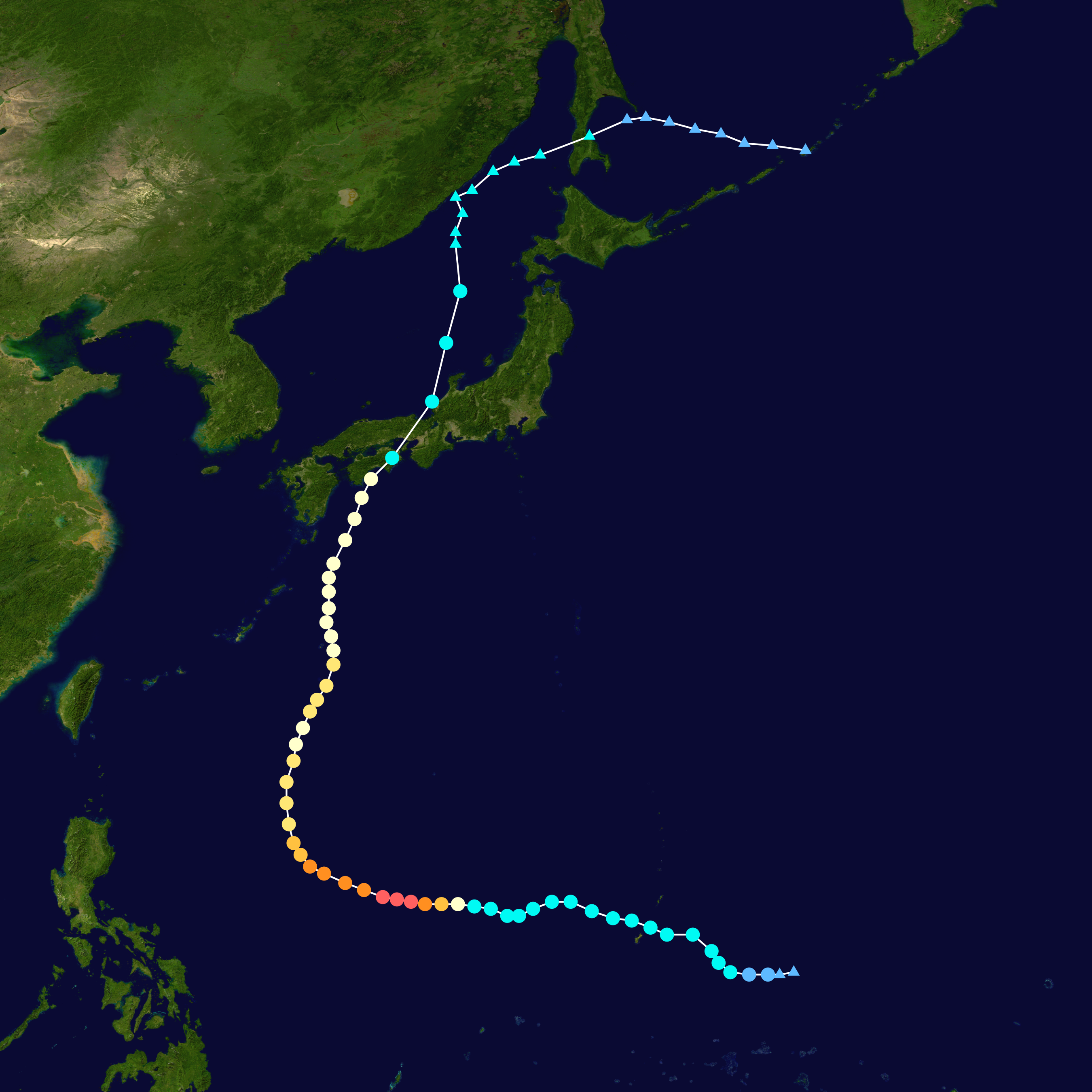 Track map of Typhoon Halong of the 2014 Pacific typhoon season. The points show the location of the storm at 6-hour intervals. The colour represents the storm's maximum sustained wind speeds as classified in the Saffir–Simpson scale (see below), and the shape of the data points represent the nature of the storm, according to the legend below. Saffir–Simpson scale Tropical depression≤38 mph≤62 km/h Category 3111–129 mph178–208 km/h Tropical storm39–73 mph63–118 km/h Category 4130–156 mph209–251 km/h Category 174–95 mph119–153 km/h Category 5≥157 mph≥252 km/h Category 296–110 mph154–177 km/h Unknown Storm type Tropical cyclone Subtropical cyclone Extratropical cyclone / Remnant low / Tropical disturbance / Monsoon depression